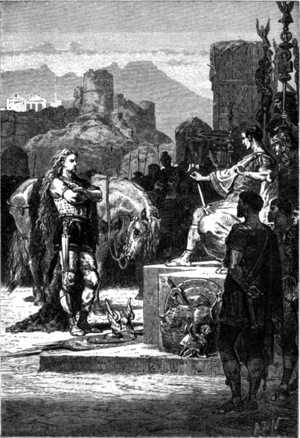 Vercingetorix surrenders to Caesar